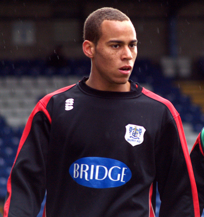 Bury FC midfielder Elliott Bennett during the warm up before the Bury vs. Bournemouth game at Gigg Lane, home of Bury FC. Saturday 28th March 2009